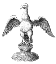 The eagle-shaped gold Ampulla